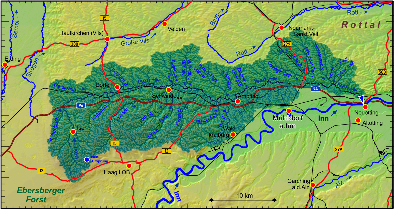 Map of the catchment area of the Isen river (enhanced area)